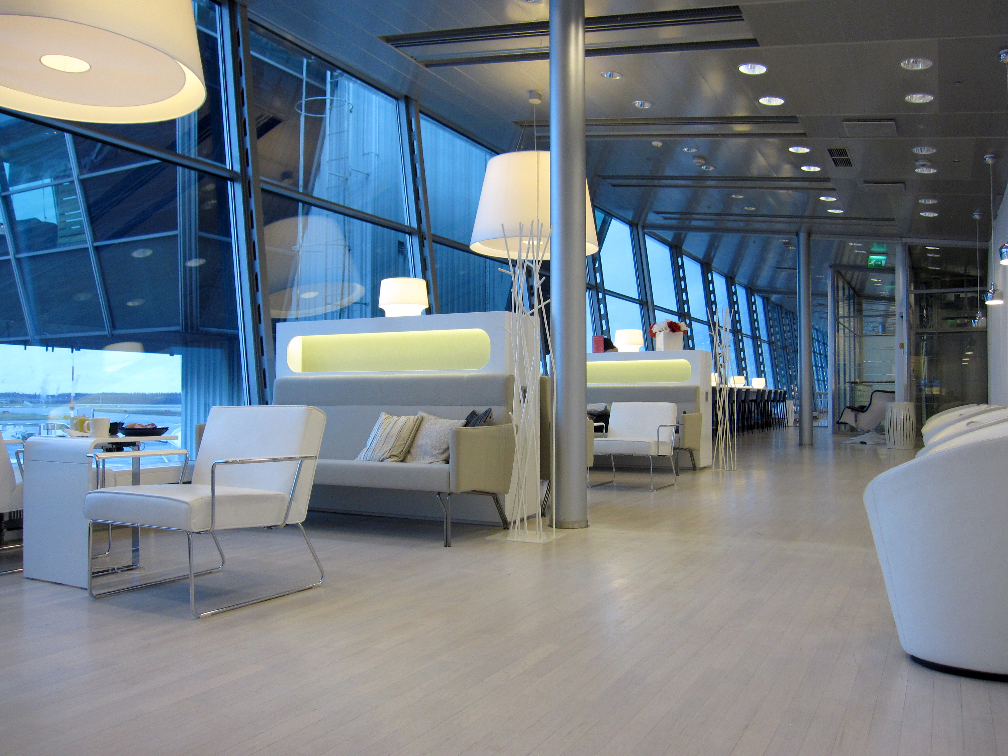 Finnair lounge at Helsinki Airport in December 2011.